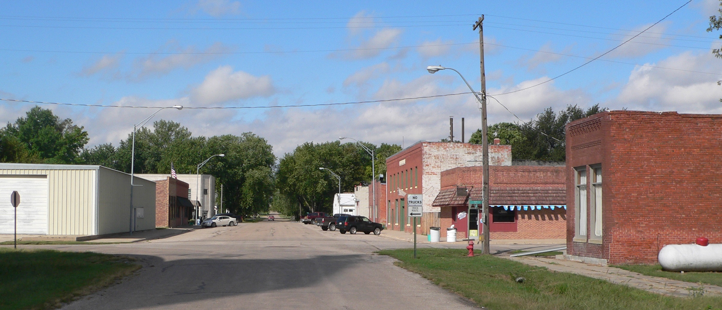 Downtown McCool Junction, Nebraska: M Street, looking west from about 6th Street.